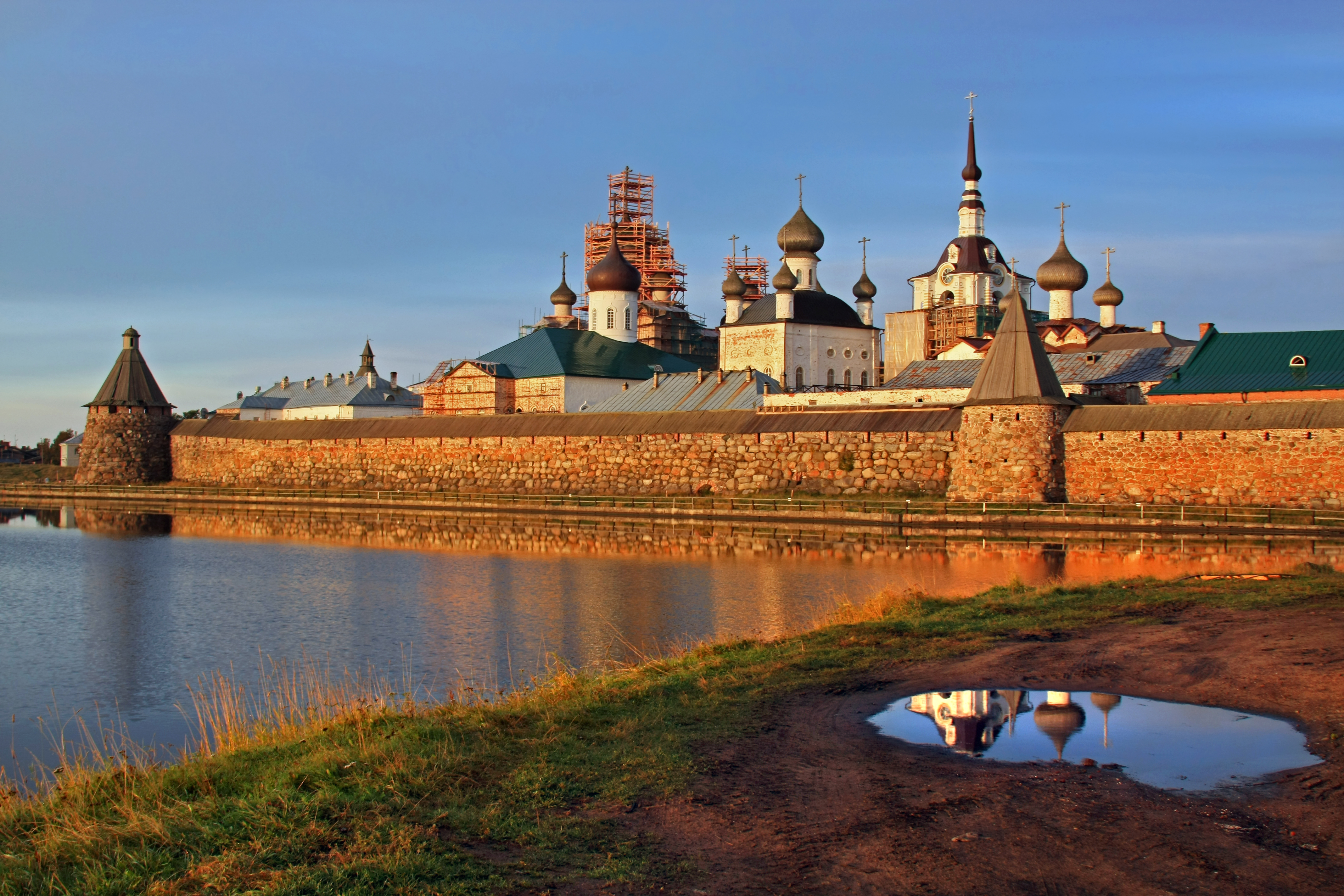 Ozero Svyatoye is a lake in Solovetsky islands